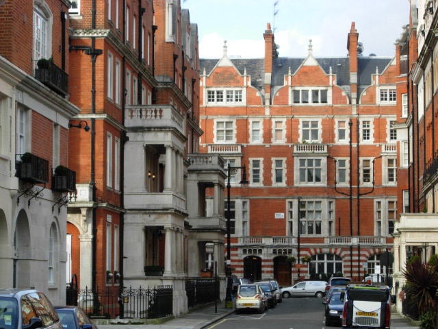 Balfour Place, Mayfair Short street running parallel to and west of South Audley Street. It is called Balfour Mews as far as the crossroads with Aldford Street in the foreground. The name commemorates Eustace Balfour, the estate surveyor, who designed the buildings.